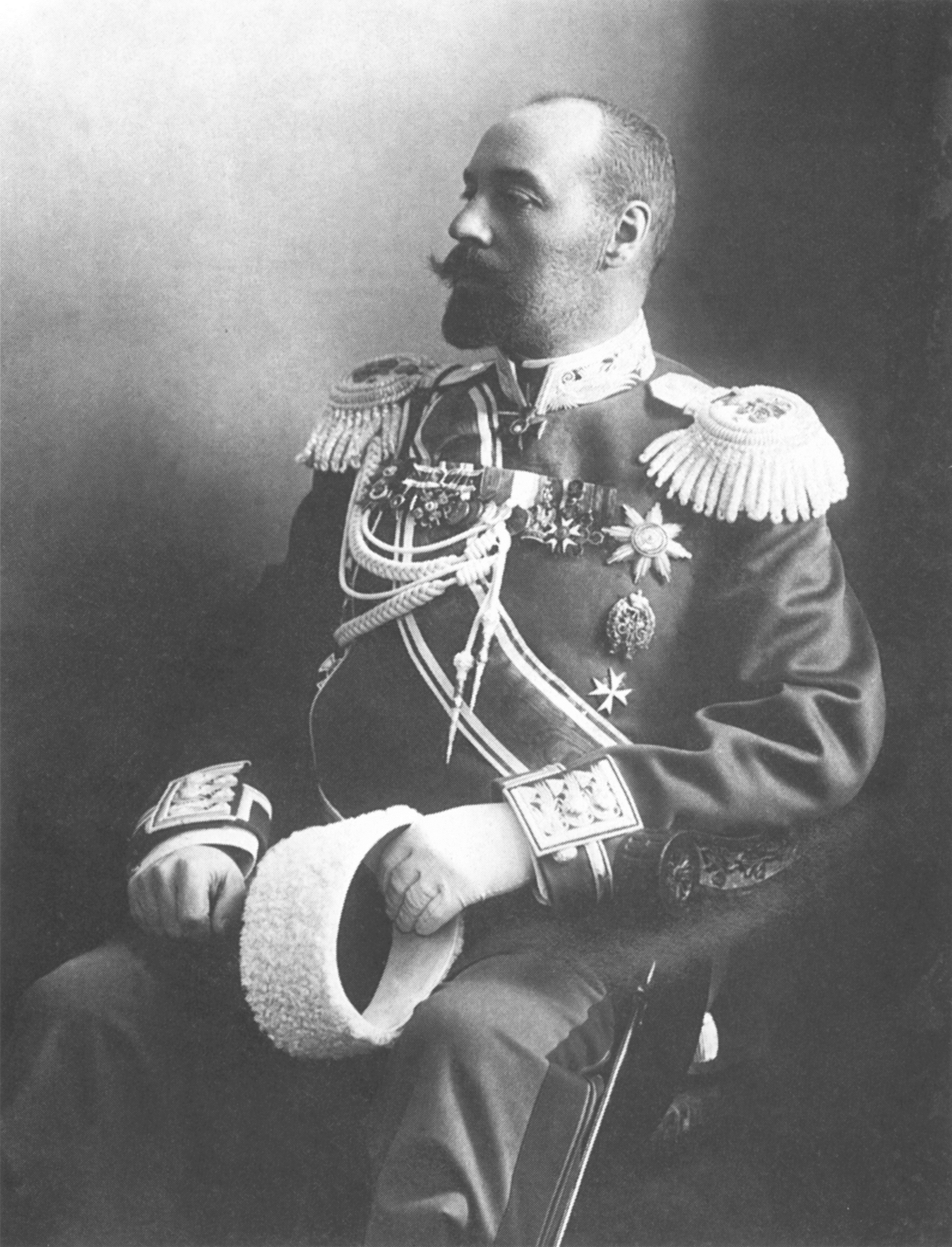 Dmitry Fyodorovich Trepov (Trepoff; 1850-1906), was a Governor General of St Petersburg (1905), later - the Commandant of the Imperial Palace. 1905.